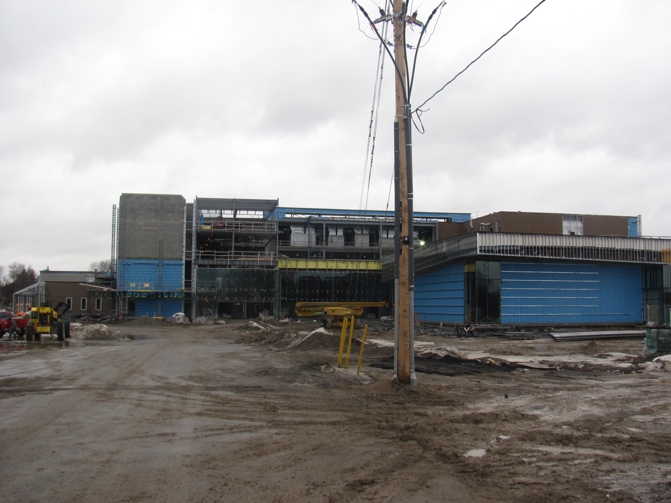 The new David and Mary Thomson Collegiate Institute building under construction on the former sports field of Bendale B.T.I. in Scarborough, Toronto, Ontario, Canada. The new school is set to open in September 2019.